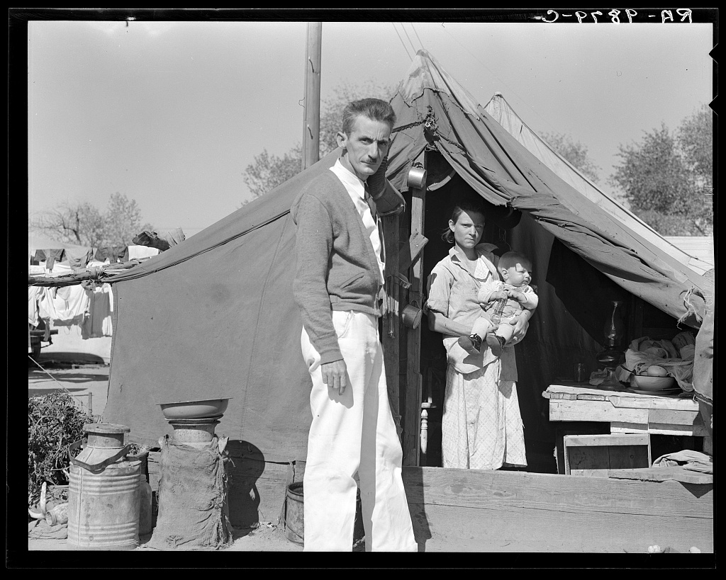 This is a photograph taken by Dorothea Lange of Tom Collins